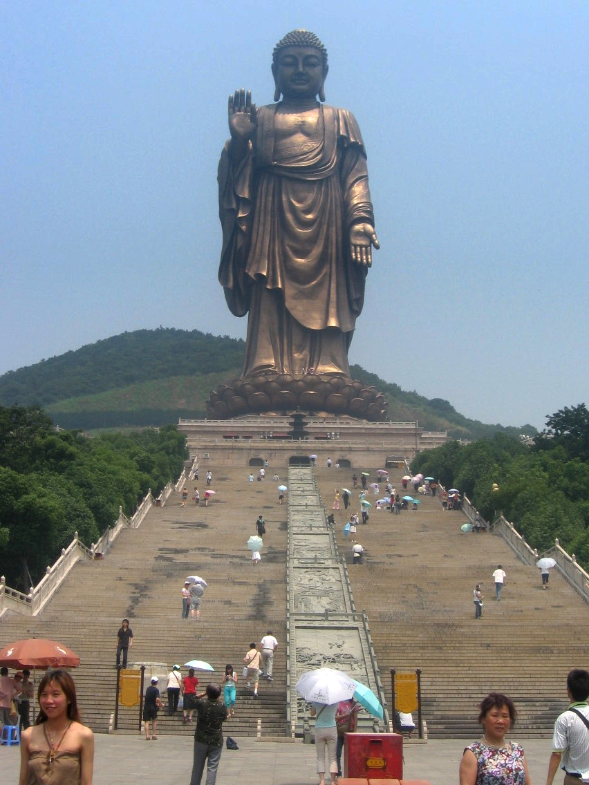 I took this picture in the summer of 2006 when I toured China. Located in Wuxi province, the Grand Buddha was very impressive, rivaling the Statue of Liberty in height. The picture is foggy because of the extreme heat/humidity of the air. After climbing the 99 steps to the top, I fully realized how much the Ling Shan Buddha is a modern marvel.